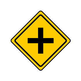 Own Work